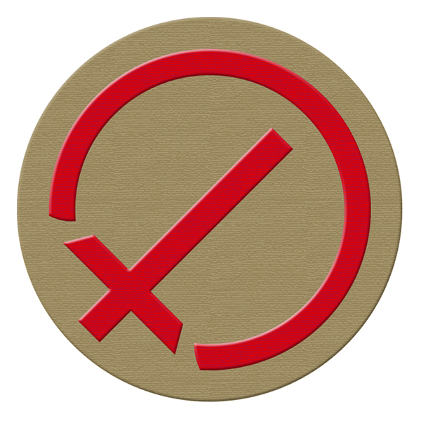 Insignia of Imperial Japanese Army Paratroopers.